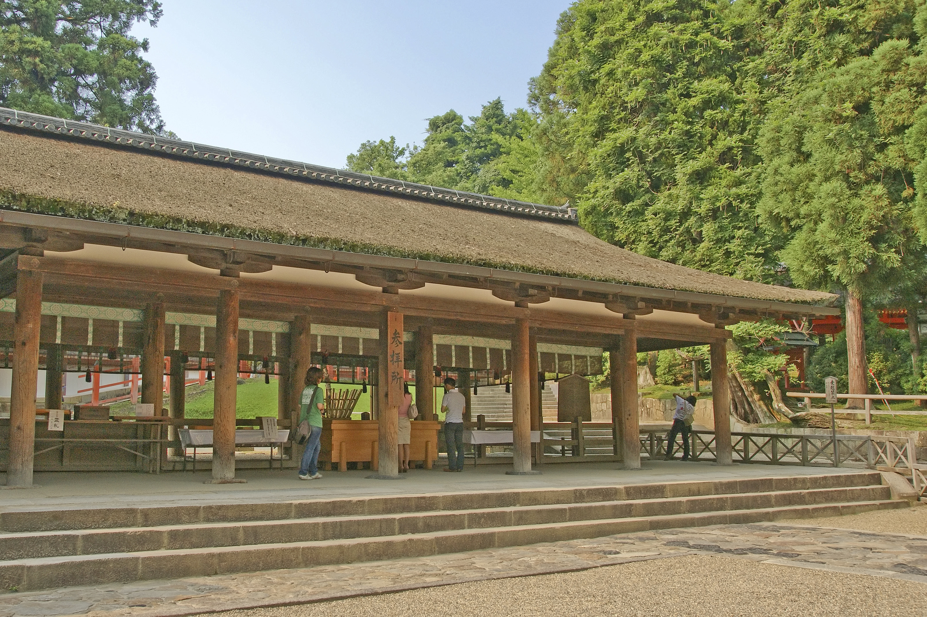 Kasuga-taisha in Nara, Nara prefecture, Japan